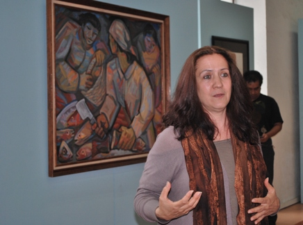 Cecilia Santacruz in front of Pescaderia by Alfredo Zalco at the closing of the Origen de un Acervo at the Centro de Educación Continua Unidad Allende IPN